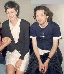 Photo of Everything but the Girl with Italian fan cropped out, taken in the 1990s